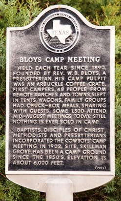 Texas landmark sign on the Bloys Camp Meeting site